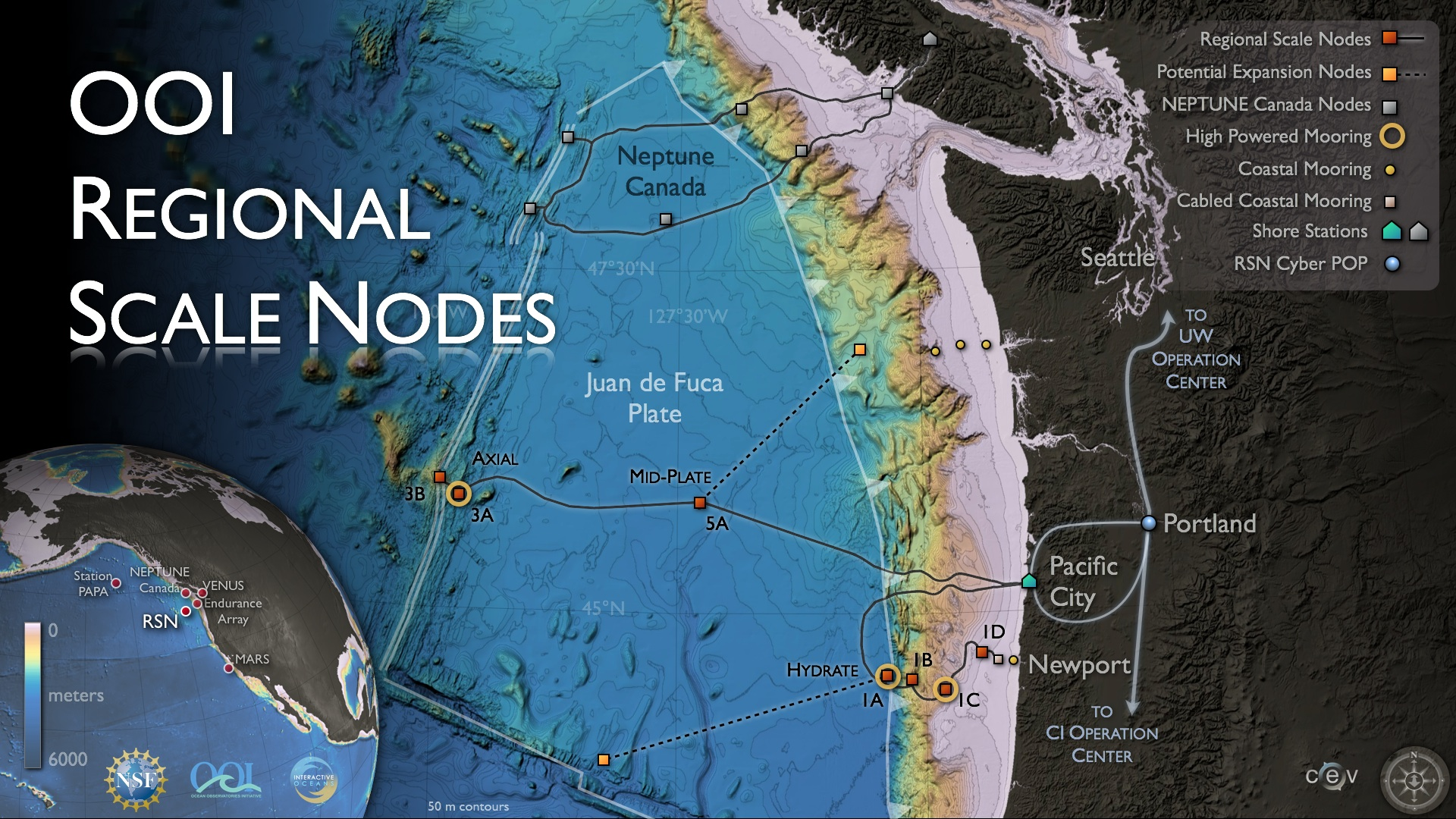 The OOI Regional Scale Nodes will focus on two primary study sites (Hydrate Ridge and Axial Seamount) with the potential for future expansion to other sites. Credit: OOI Regional Scale Nodes program and Center for Environmental Visualization, University of Washington. Disclaimer: all data are subject to revision without notice.